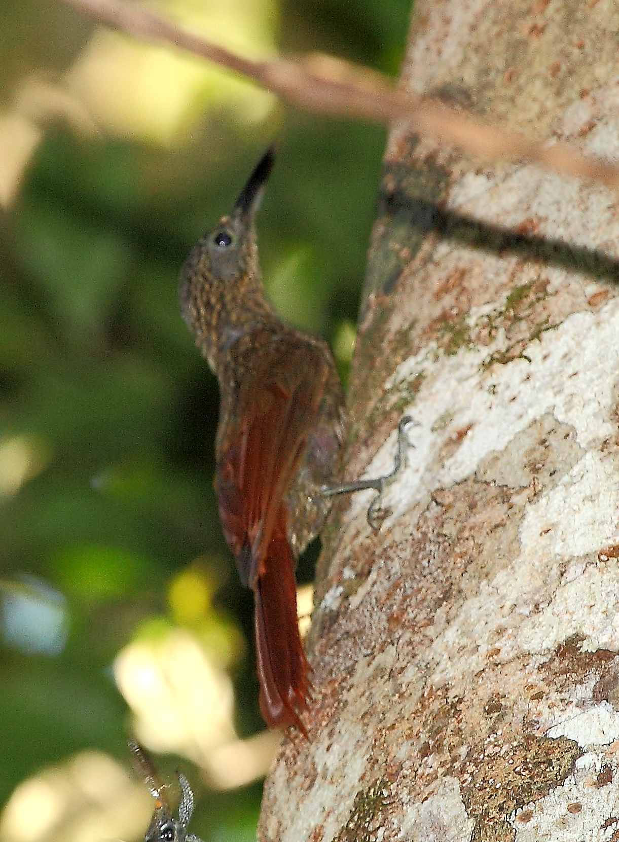 Chetnut-rumped Woodcreeper at Manaus - AM- Brazil